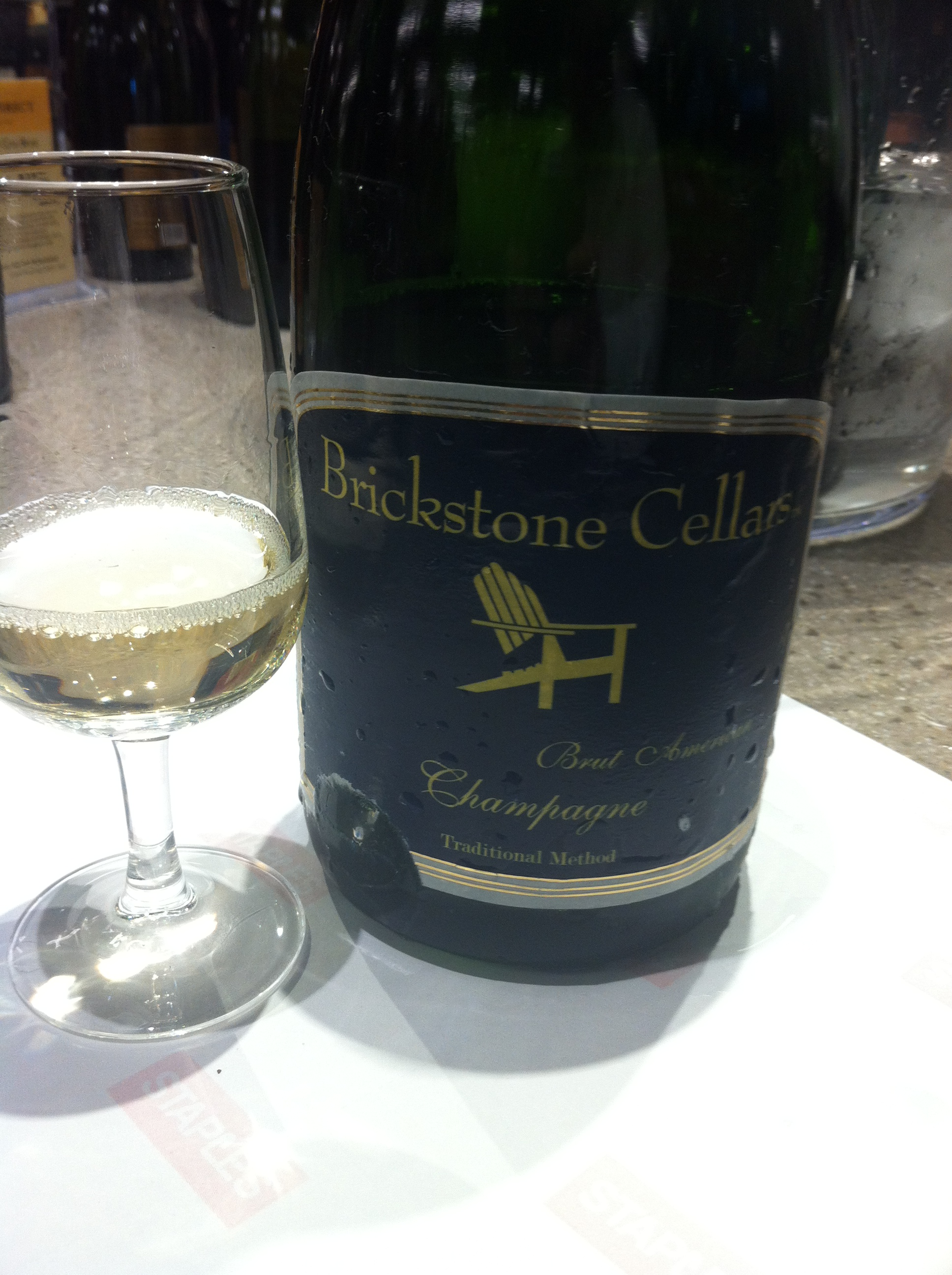 A sparkling wine made in the Finger Lakes region of New York with the semi-generic labeling of "champagne". This is a second label of Pleasant Valley Wine Company which was the first bonded winery in the US.